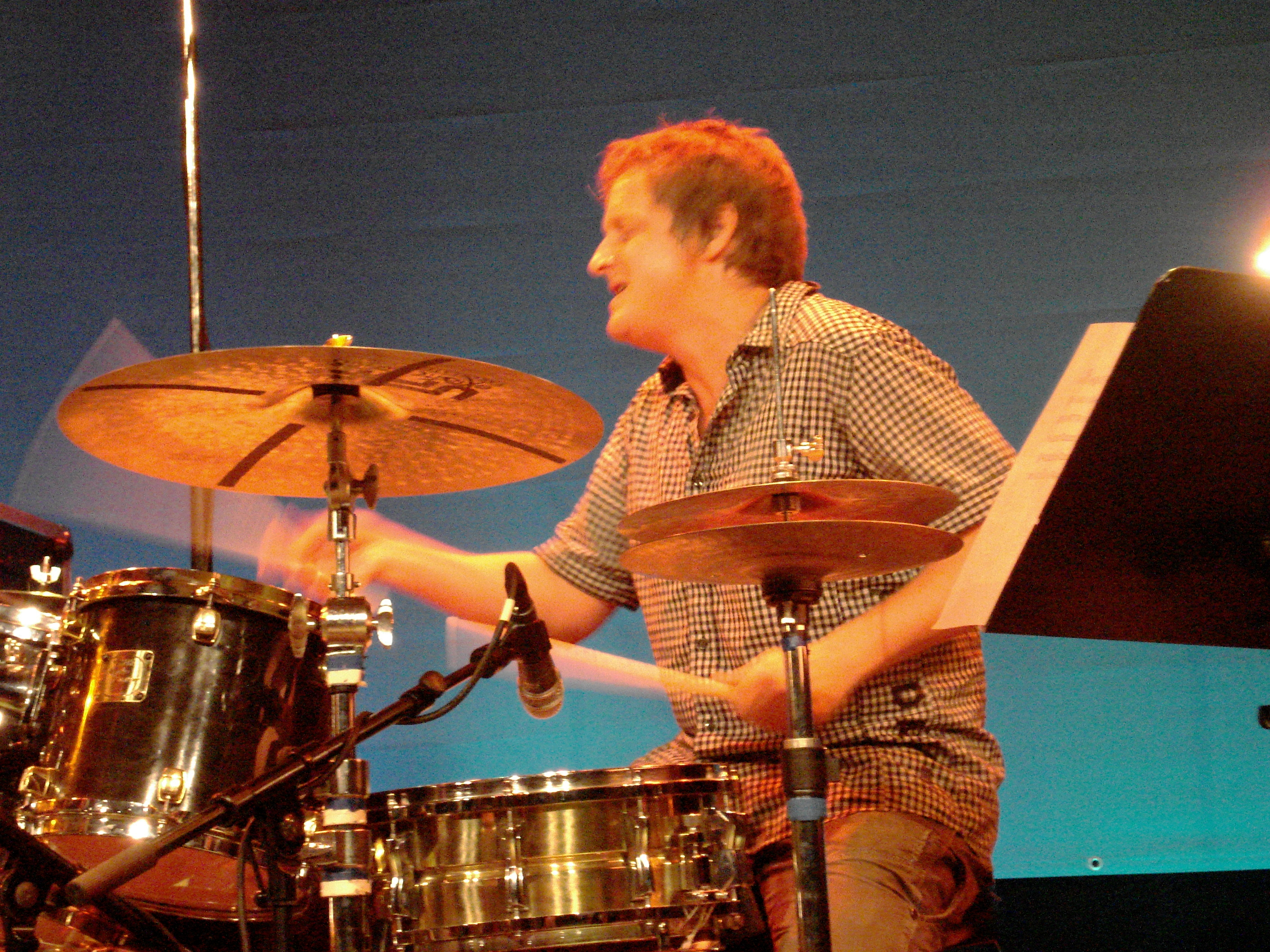 Jim Black live at Saalfelden 2009